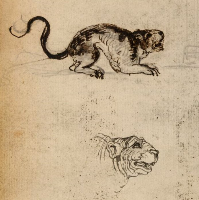 Blake manuscript - Notebook - page 006-detail-center